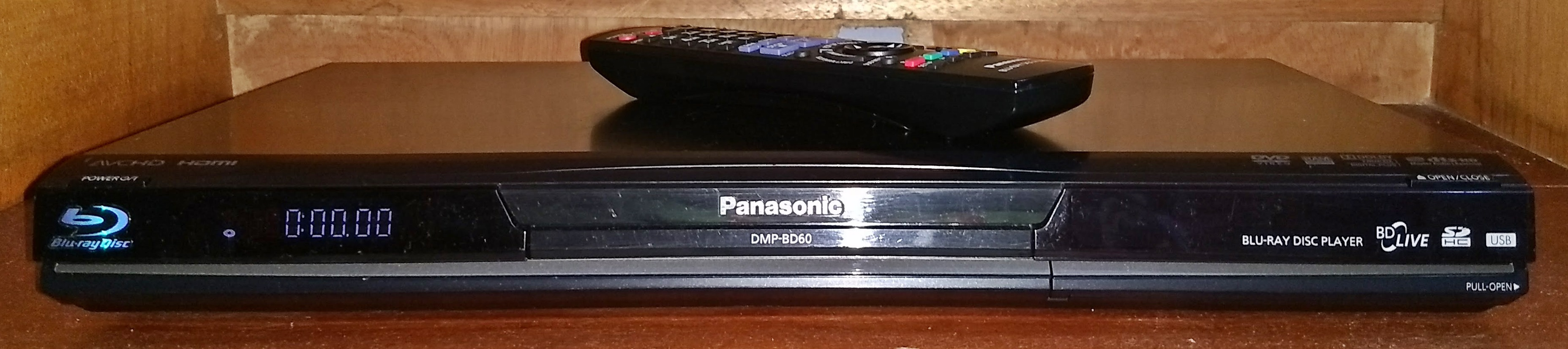 A Blu-Ray Panasonic DMP-BD60 (circa 2009) installed in my bedroom and working with its respective remote control